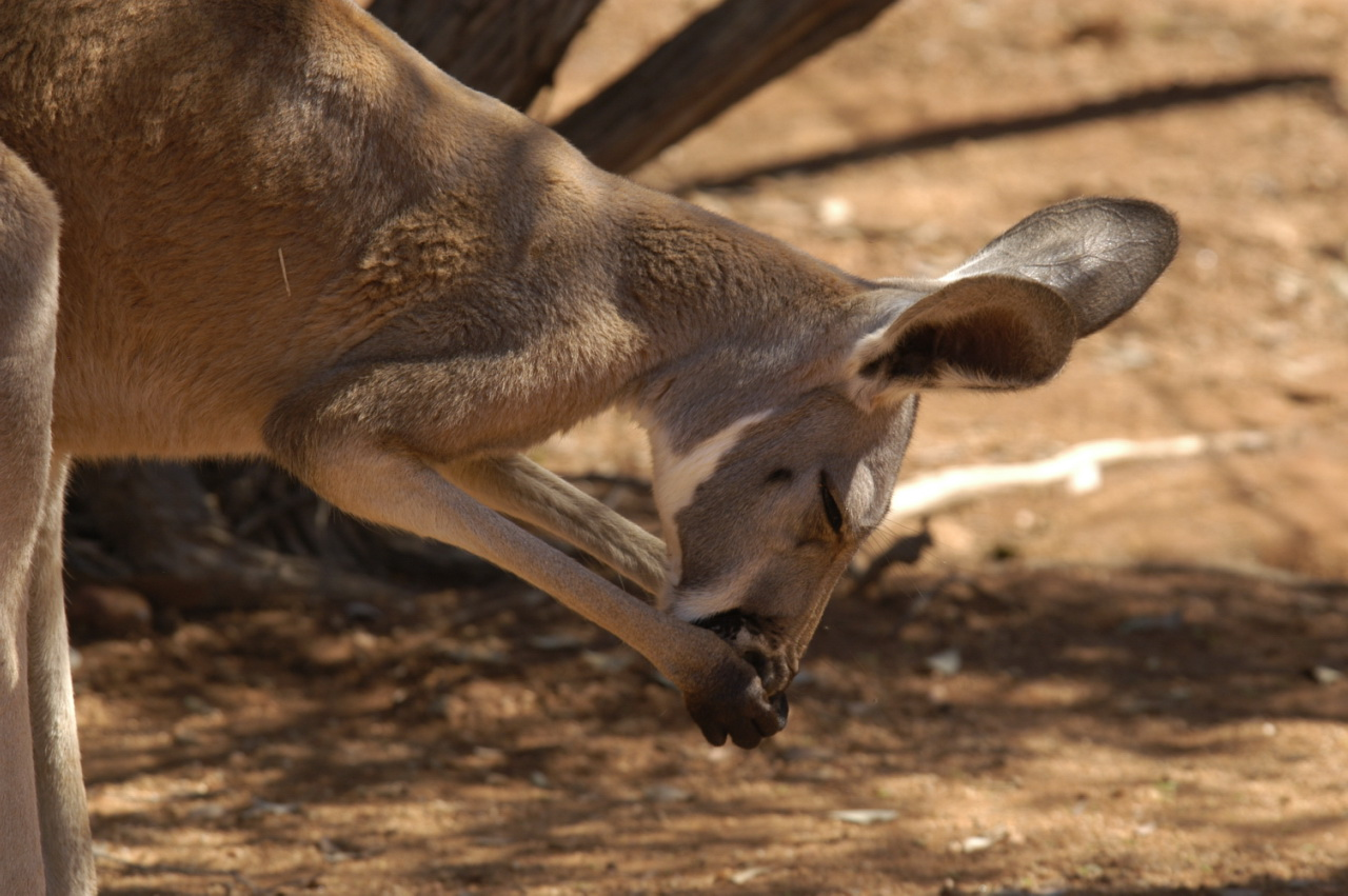 Red Kangaroos are common in central Australia, although they tend to avoid people.